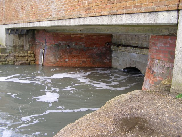 Beneath the Dark Water bridge, Lepe A view of the upstream side of the road bridge over Dark Water where it empties into the Solent at Lepe. On the far side of the arch a high tide and strong south-westerly winds are driving seawater back upstream.